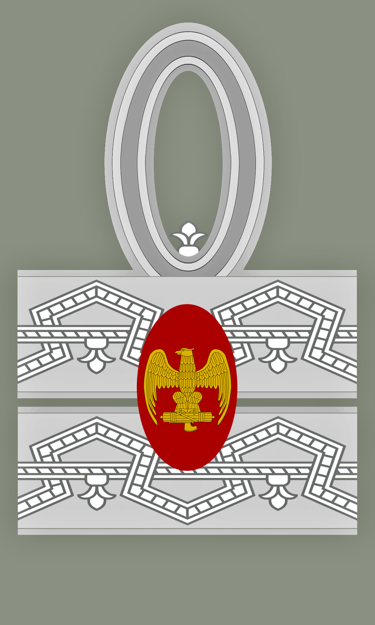 insignia for the sleeves of the rank of "primo maresciallo dell'impero" of the Italian Army (1940)